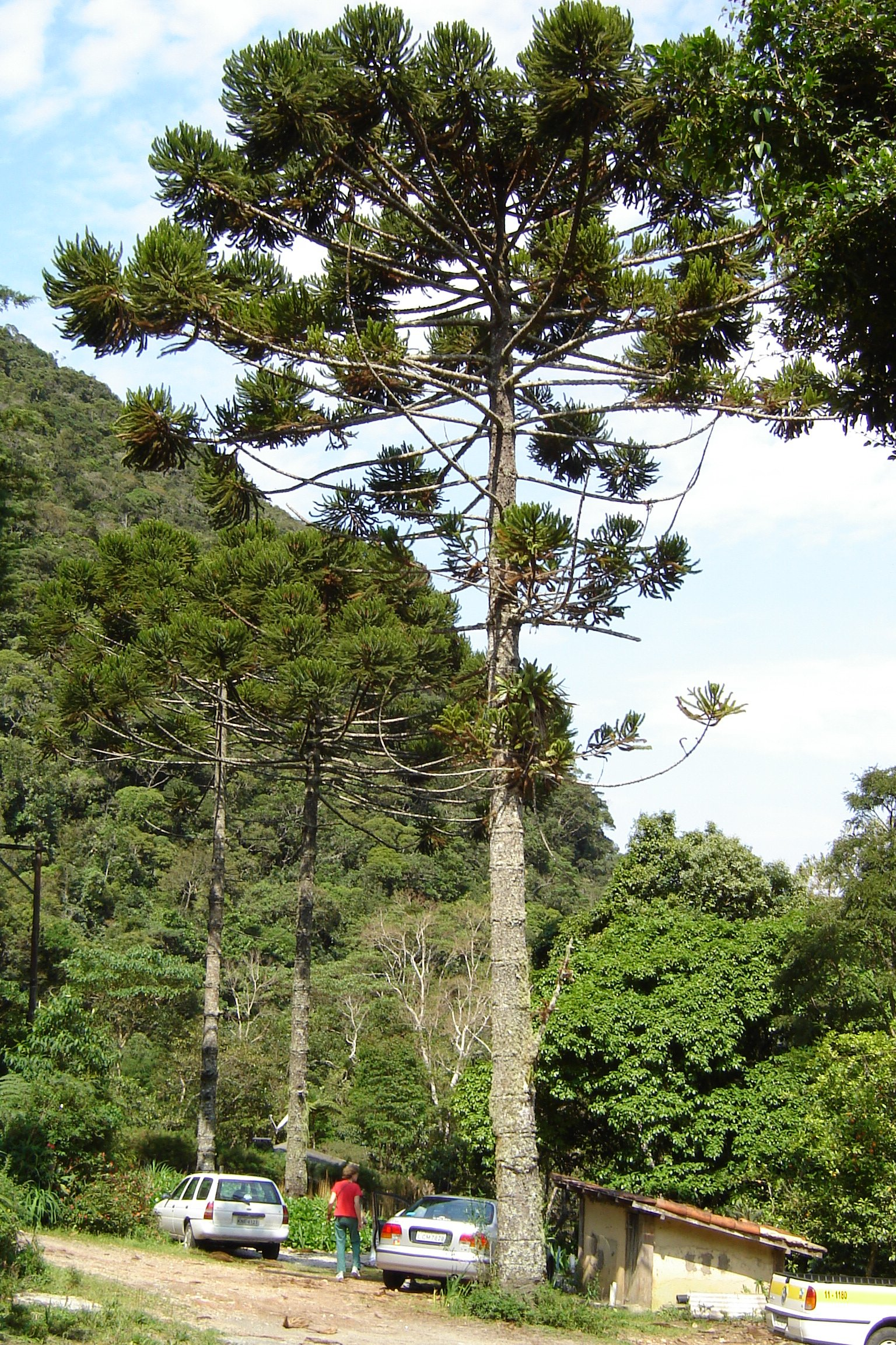 Araucaria angustifolia (araucaria brasiliensis). Some trees from Petrópolis, Rio de Janeiro. These araucaria are known as Brazil's Pine